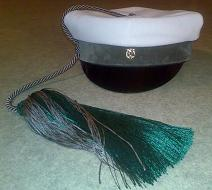 Finnish student cap